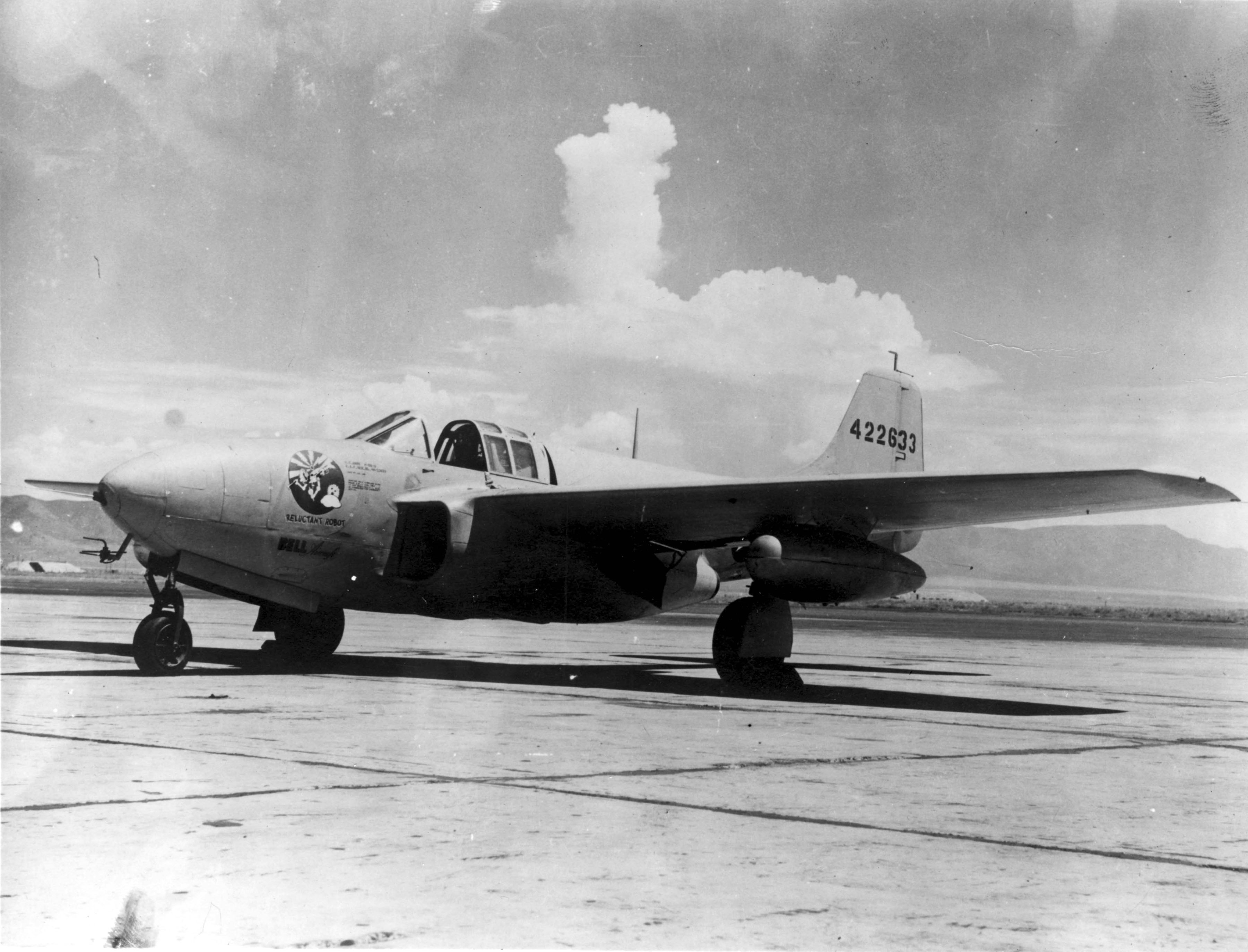 Bell P-59 Airacomet with "Reluctant Robot" nose art.